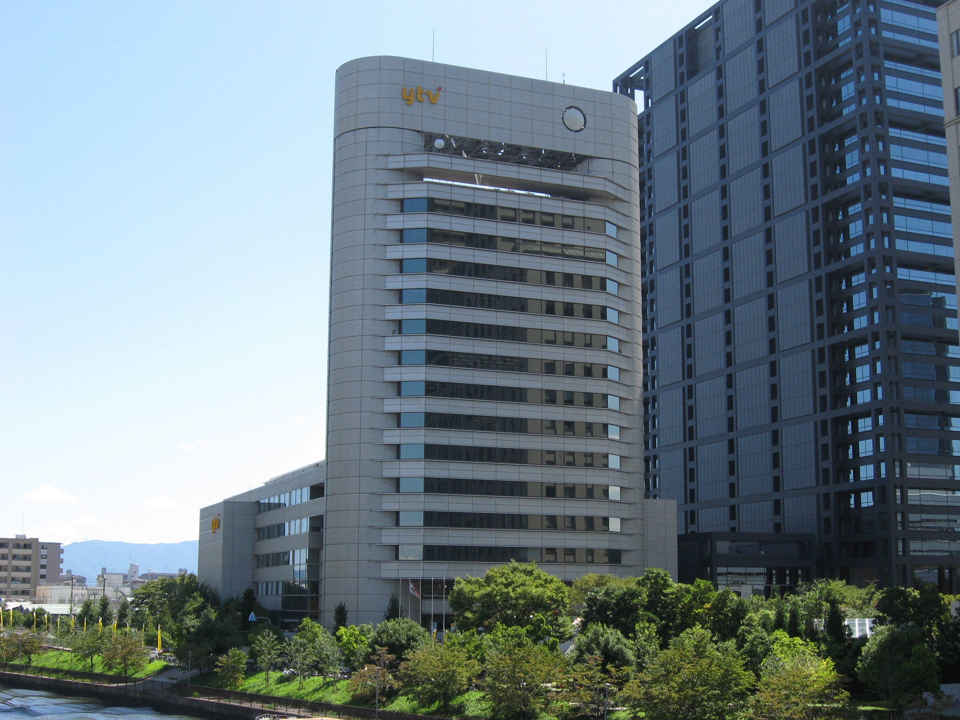 Yomiuri Telecasting Corporation (JaWp) head office